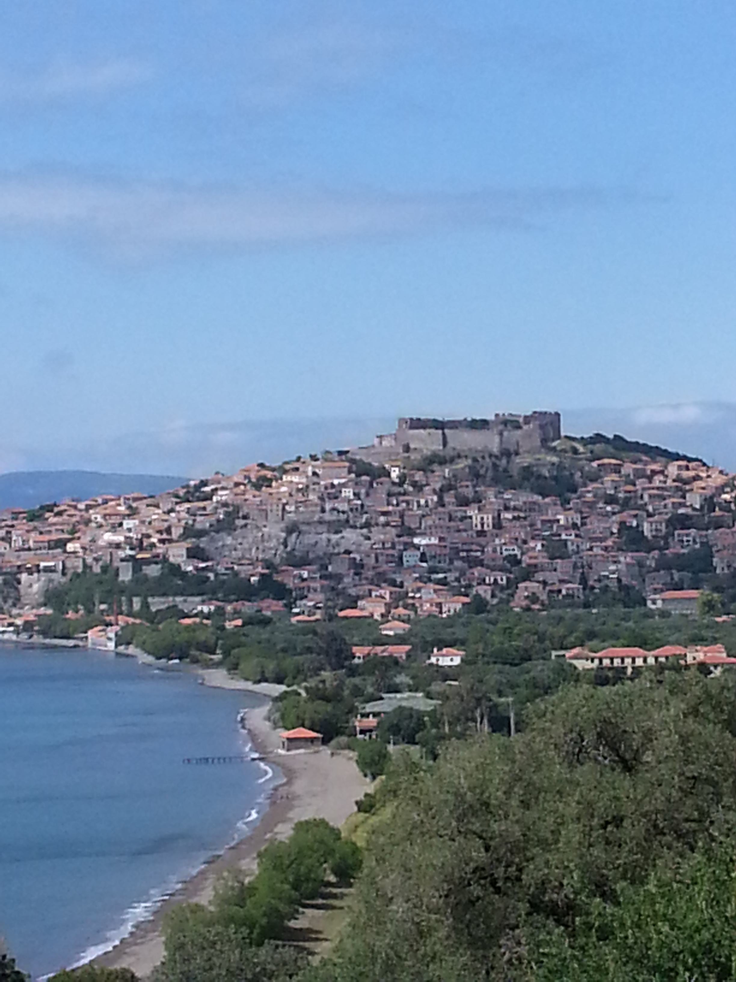 View of Molyvos and its castle, from the direction of Petra (south)